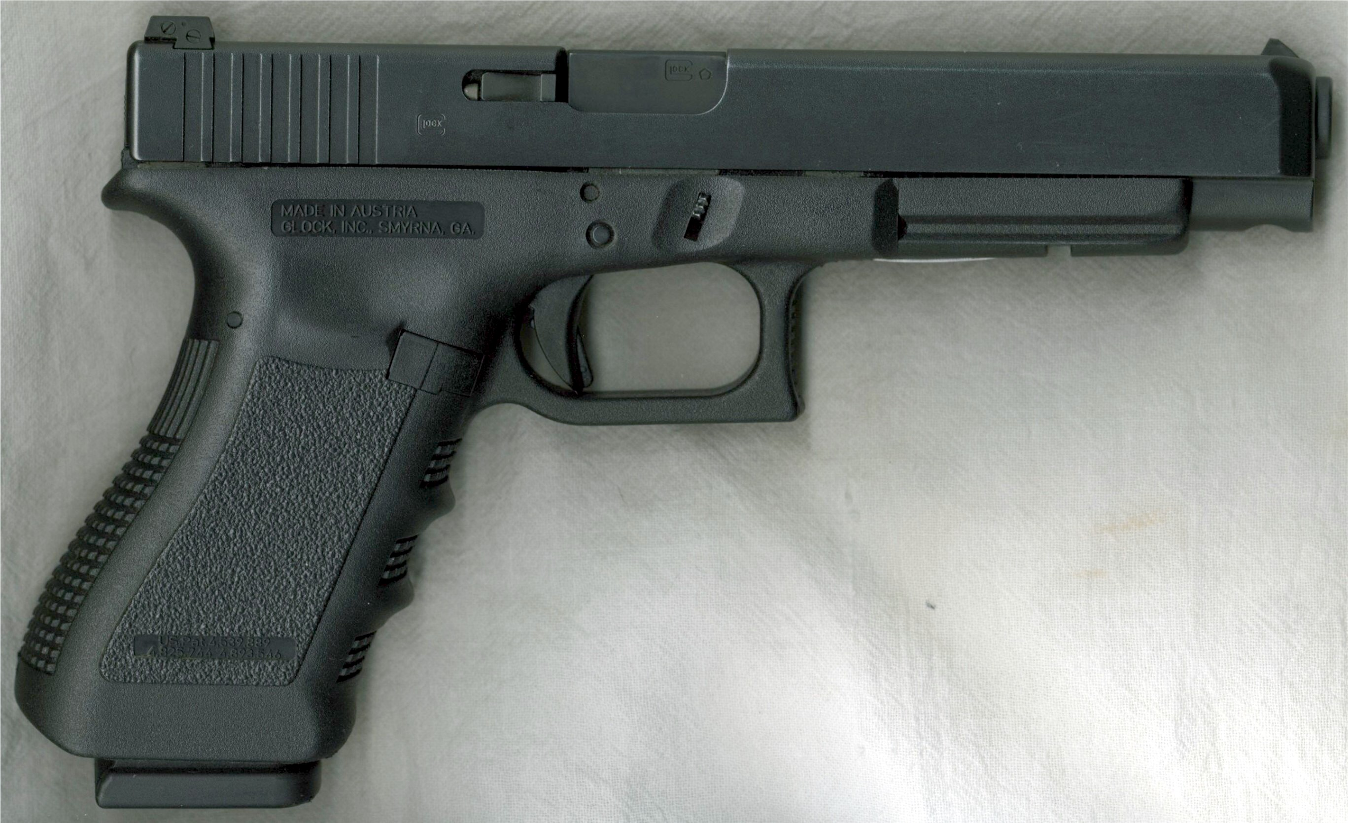 Glock 35 scanned. Generation 3 with finger grooves and light rail. Serial number obscured.